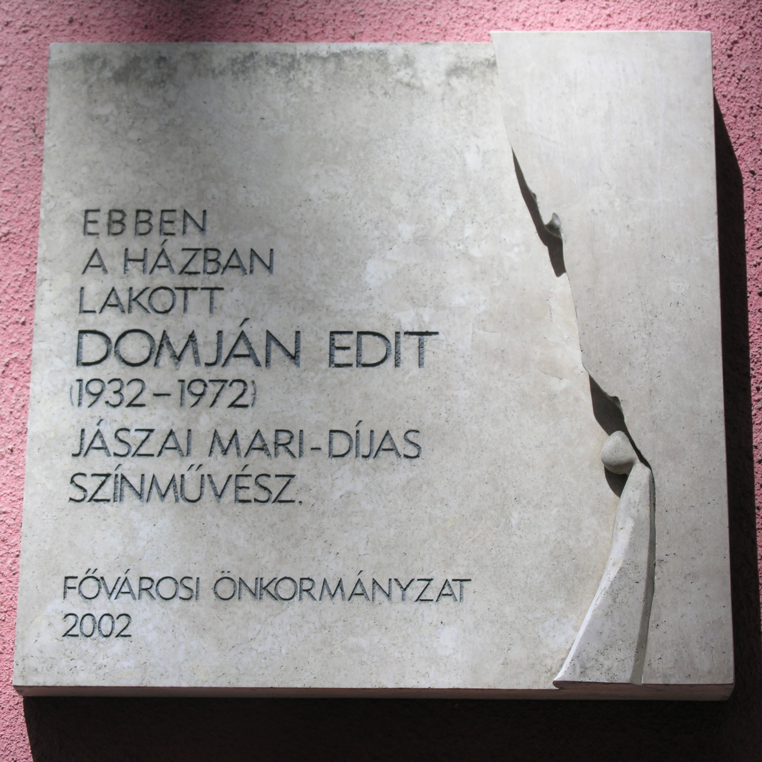 Commemorative plaque of Edit Domján in Budapest District XIII, Hollán Ernő Street No 28